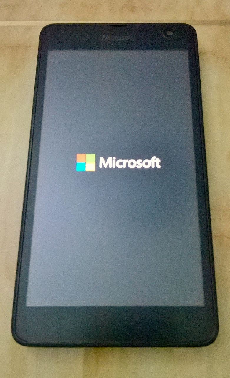 Start-up screen of the Microsoft Lumia 535. Notice the absence of Nokia branding, this being Microsoft Mobile's first self-branded phone.